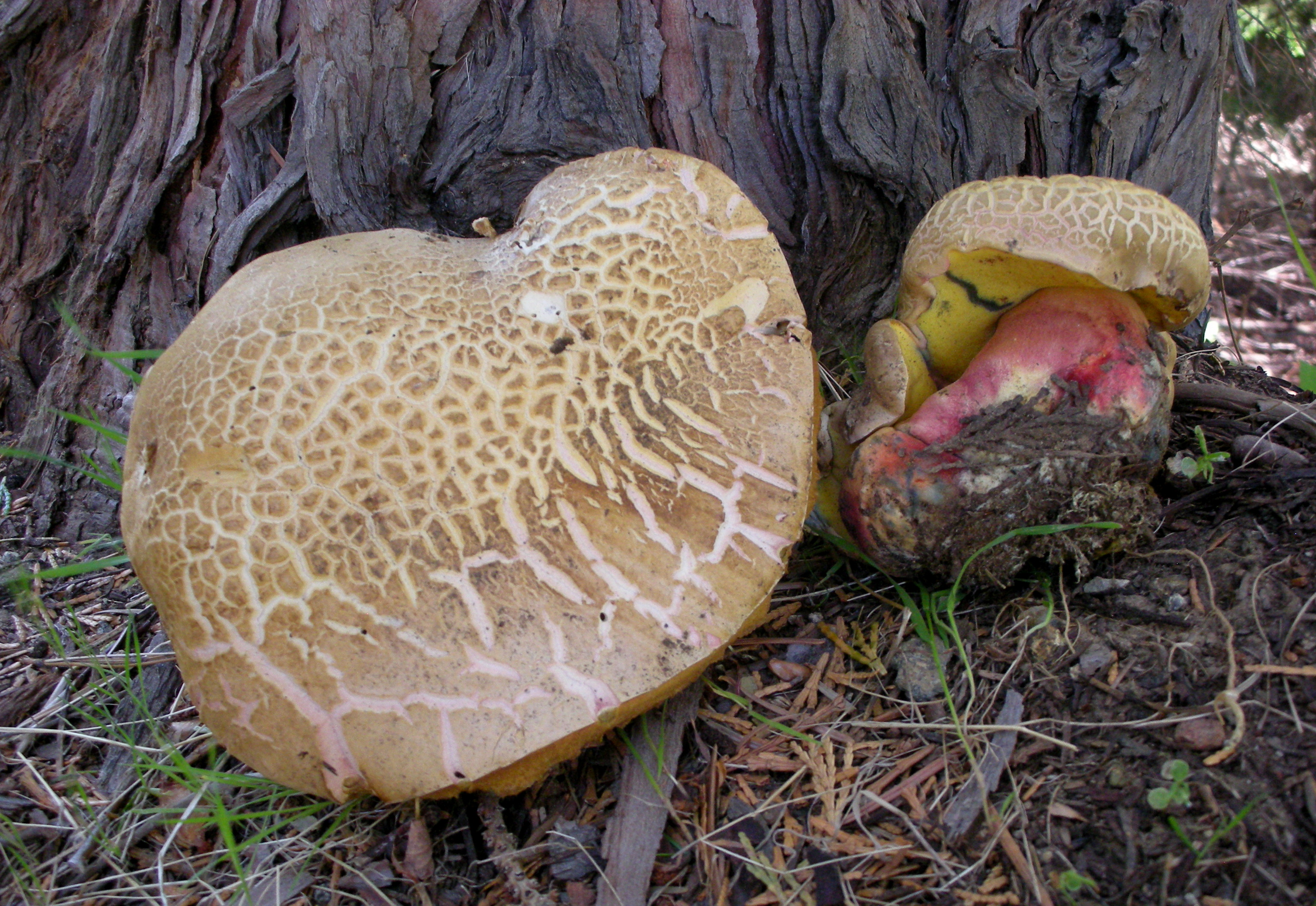 Fruit bodies of the bolete mushroom Boletus rubripes Thiers. Found in Yuba Pass, Tahoe National Forest, Sierra Co., California, USA.